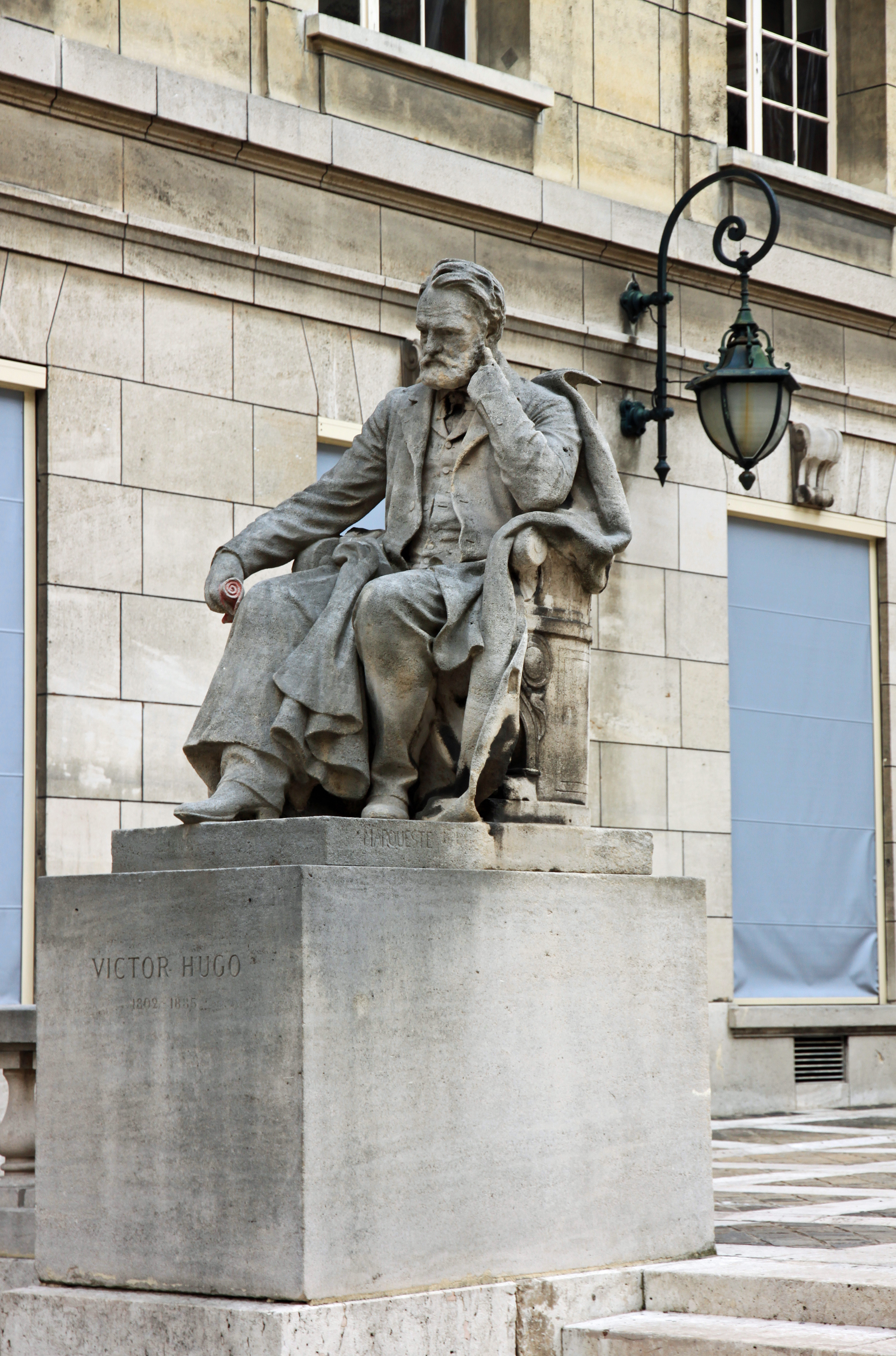 Statue of Victor Hugo (1802-1885) by Laurent Marqueste (1848-1920), 1901, cour d'honneur of the Sorbonne, Paris.